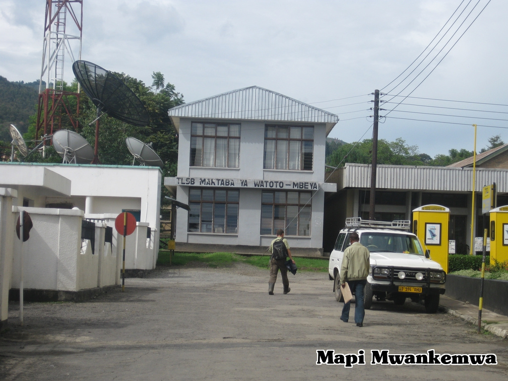 A library in the town of Mbeya, Tanzania